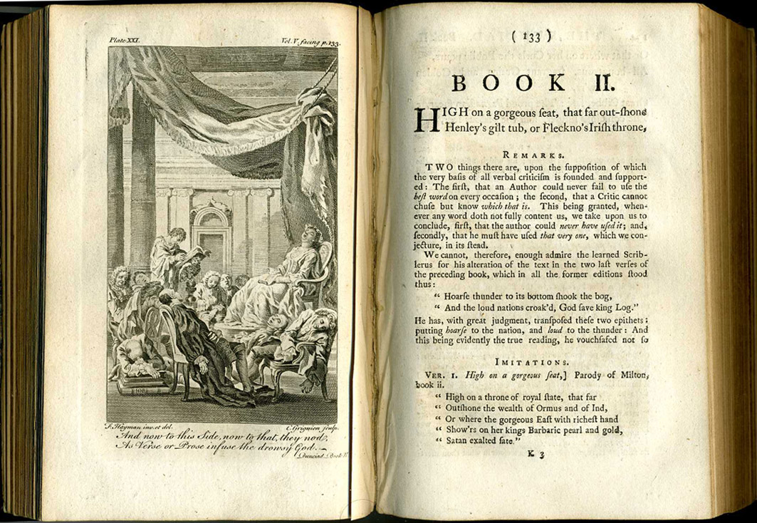 Dunciad Book II 1760 illustration, showing the Goddess and poets asleep